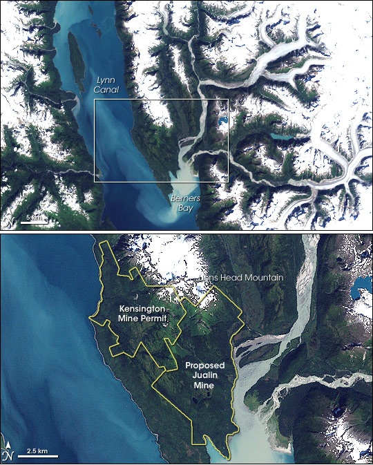 Location of Kensington Mine Lease and the proposed Julian Mine.